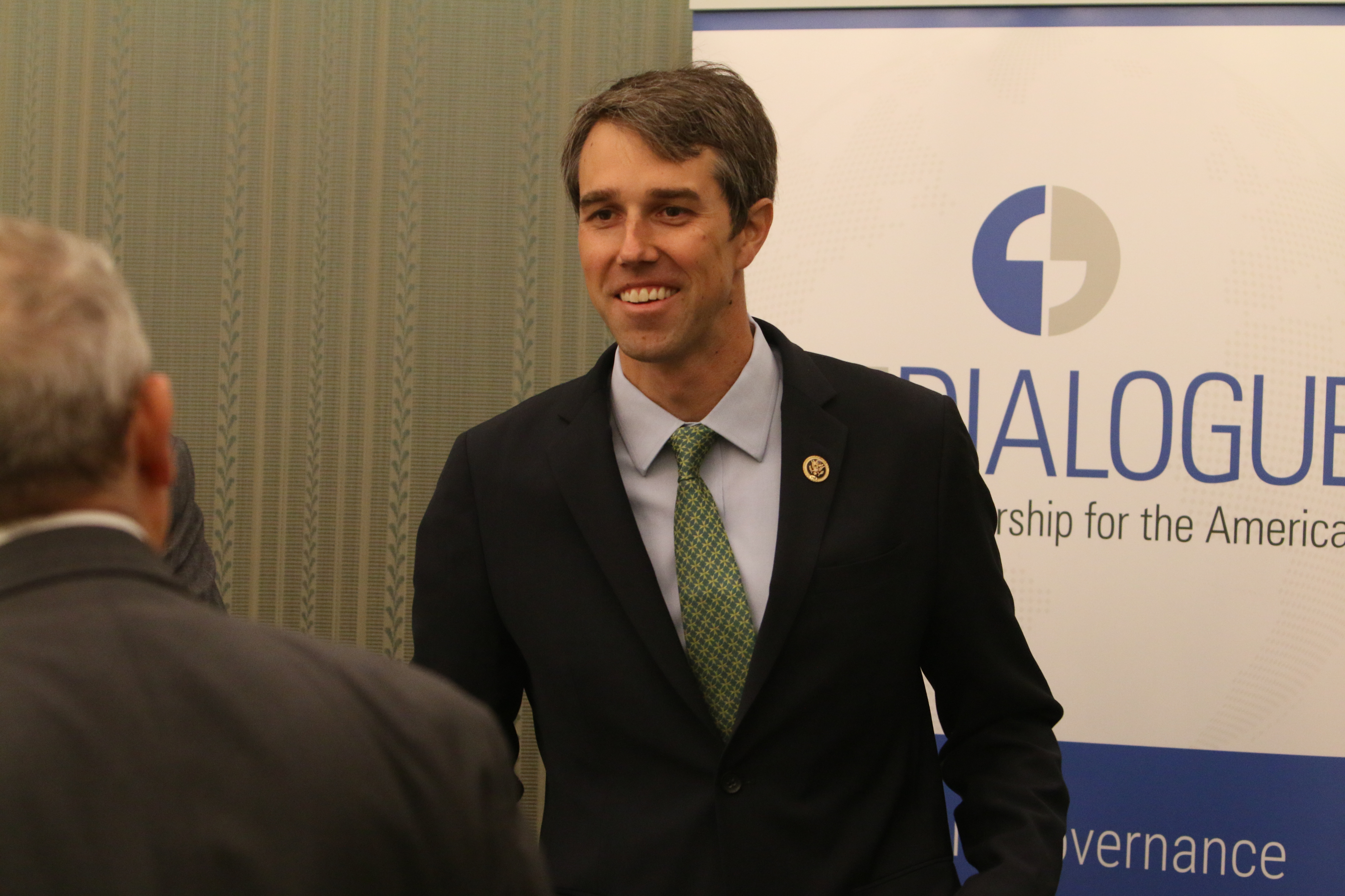 Beto O'Rourke at the Inter-American Dialogue.